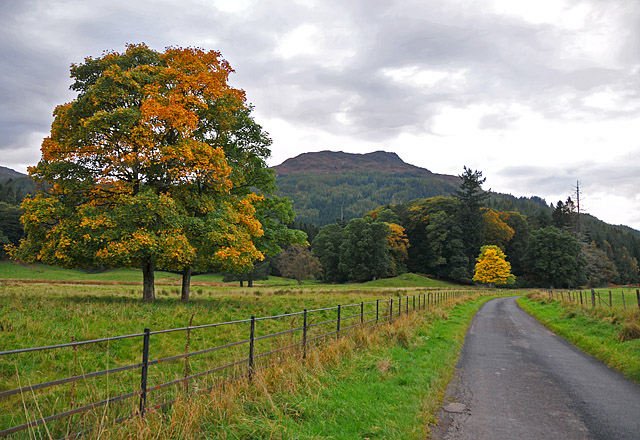 Minor road near Aberuchill, Perth and Kinross; the Geograph project's millionth image